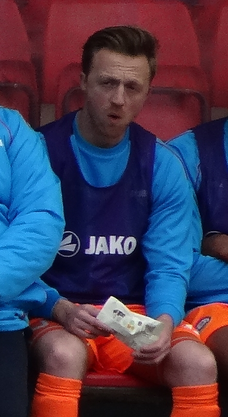 Lee Barnard at Braintree Town's match against York City at Bootham Crescent, York on 1 April 2017